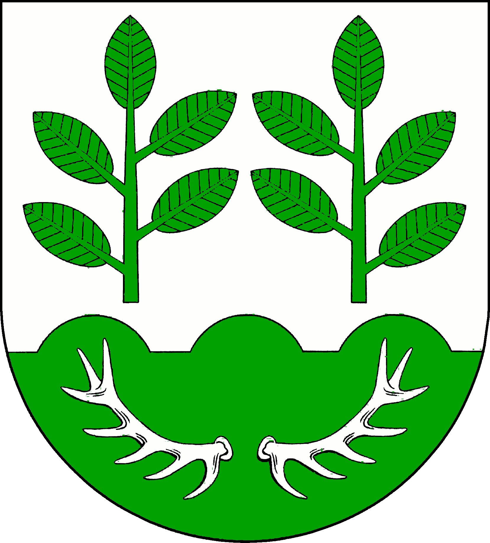 Coat of arms of the municipality Latendorf in Schleswig-Holstein, Germany.